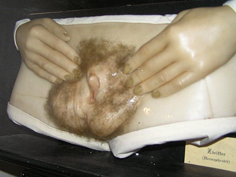 Wax figure of a human hermaphrodits genital in the Panoptikum house of wax, Hamburg